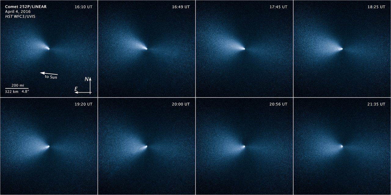 This sequence of images taken by the NASA/ESA Hubble Space Telescope shows Comet 252P/LINEAR as it passed by Earth. The visit was one of the closest encounters between a comet and our planet